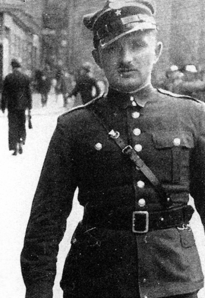 Polish officer died 1940 (victim of Katyn massacre)